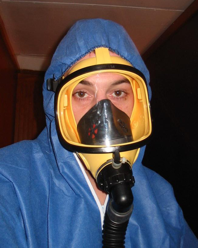 ((GFDL)) Picture taken by me. B kimmel 20:46, 30 December 2005 (UTC)